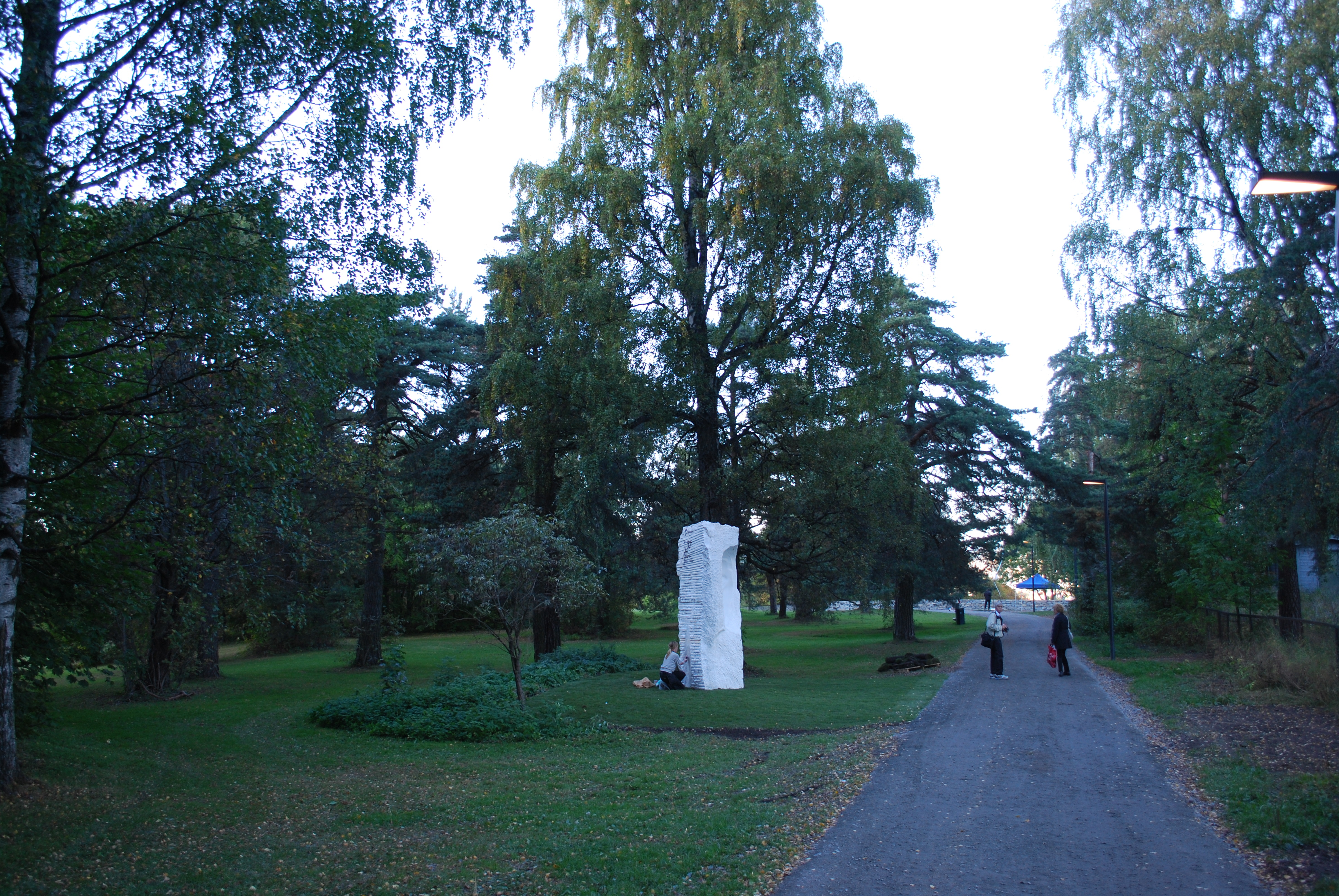 The sculpture park Ekebergparken, close to Ekeberg camping, eastern part of the park, the white scuplture is "Konkavt ansikt" by Hilde Mæhlum